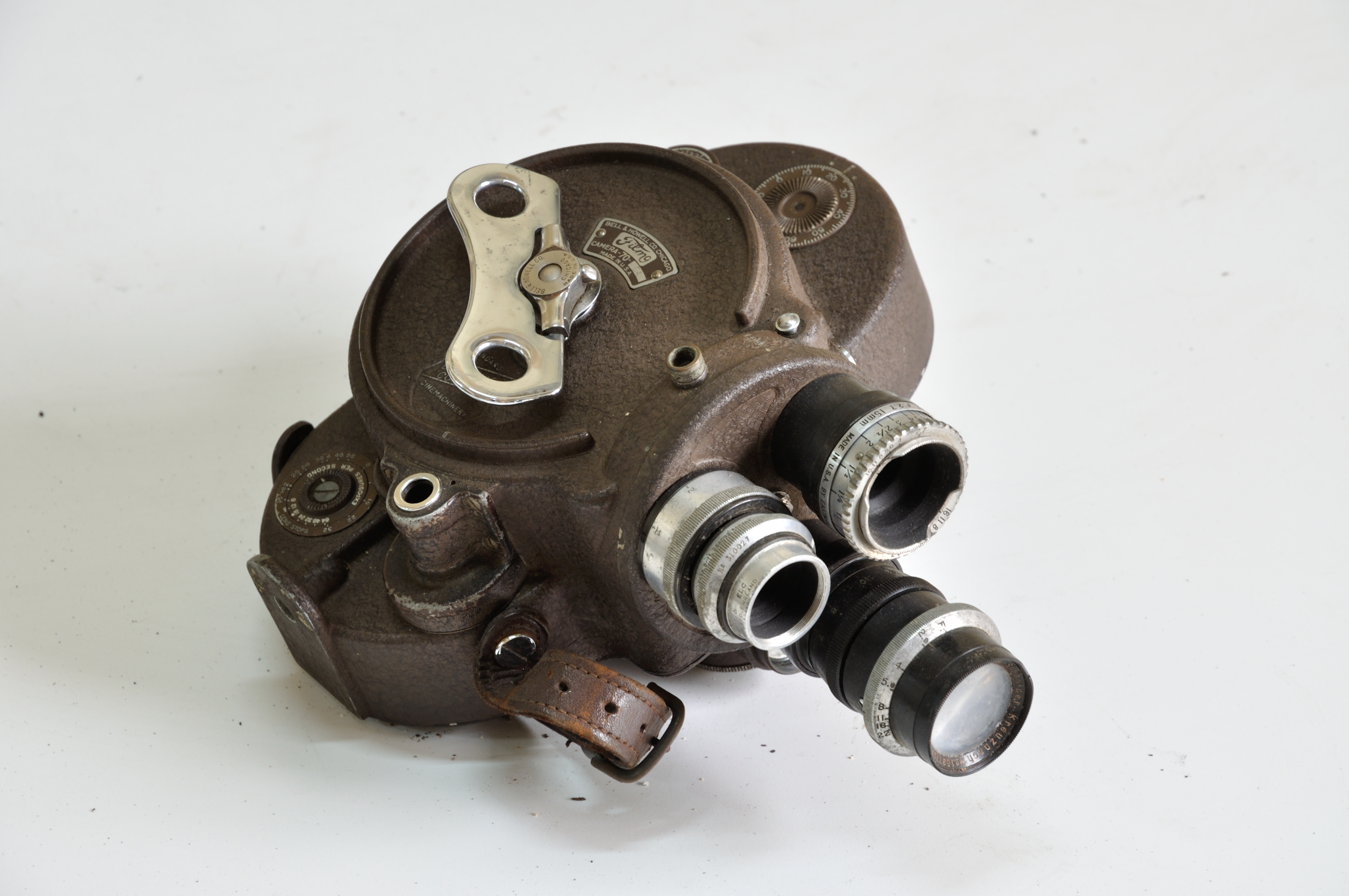 Cinematographic artifact that used in Kolkata.